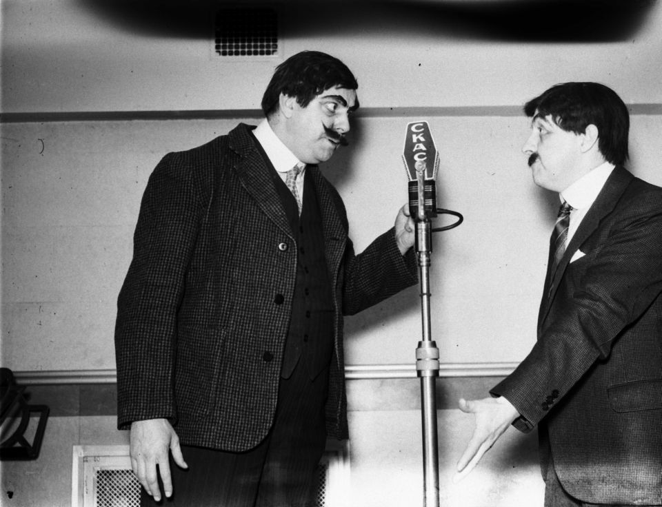 Two actors featured in the comedy show "Nazaire et Barnabé" which Ovila Légaré, the author of the texts are in operation within studios CKAC, located at 980 Sainte-Catherine Street West, Montreal.